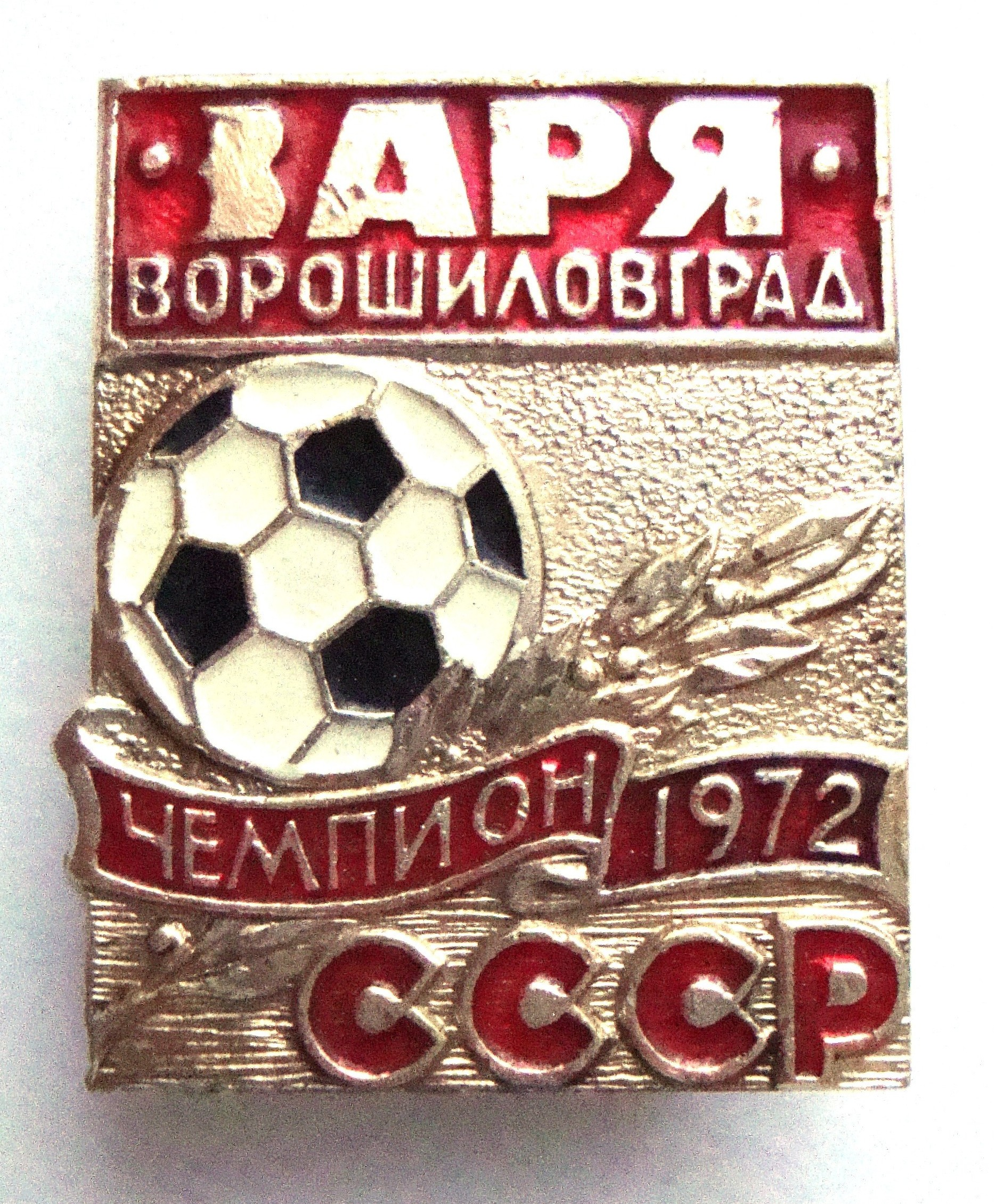 Badde " Zarya Voroshilovgrad. USSR Champion 1972"